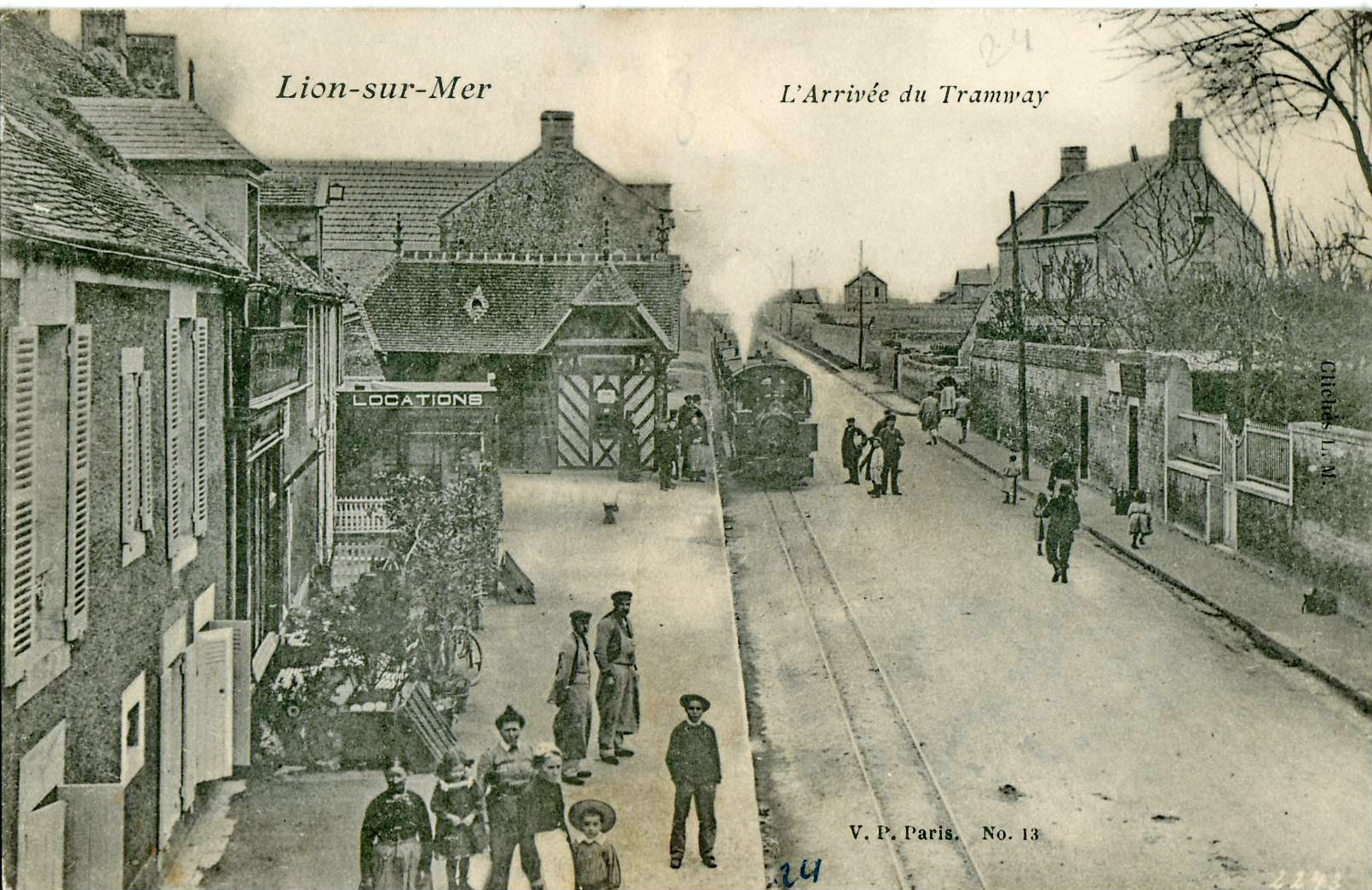 Old postcard edited by V.P. Paris n°13LION-SUR-MER : The arrival of the trolleyIl it a train of the Calvados railways.